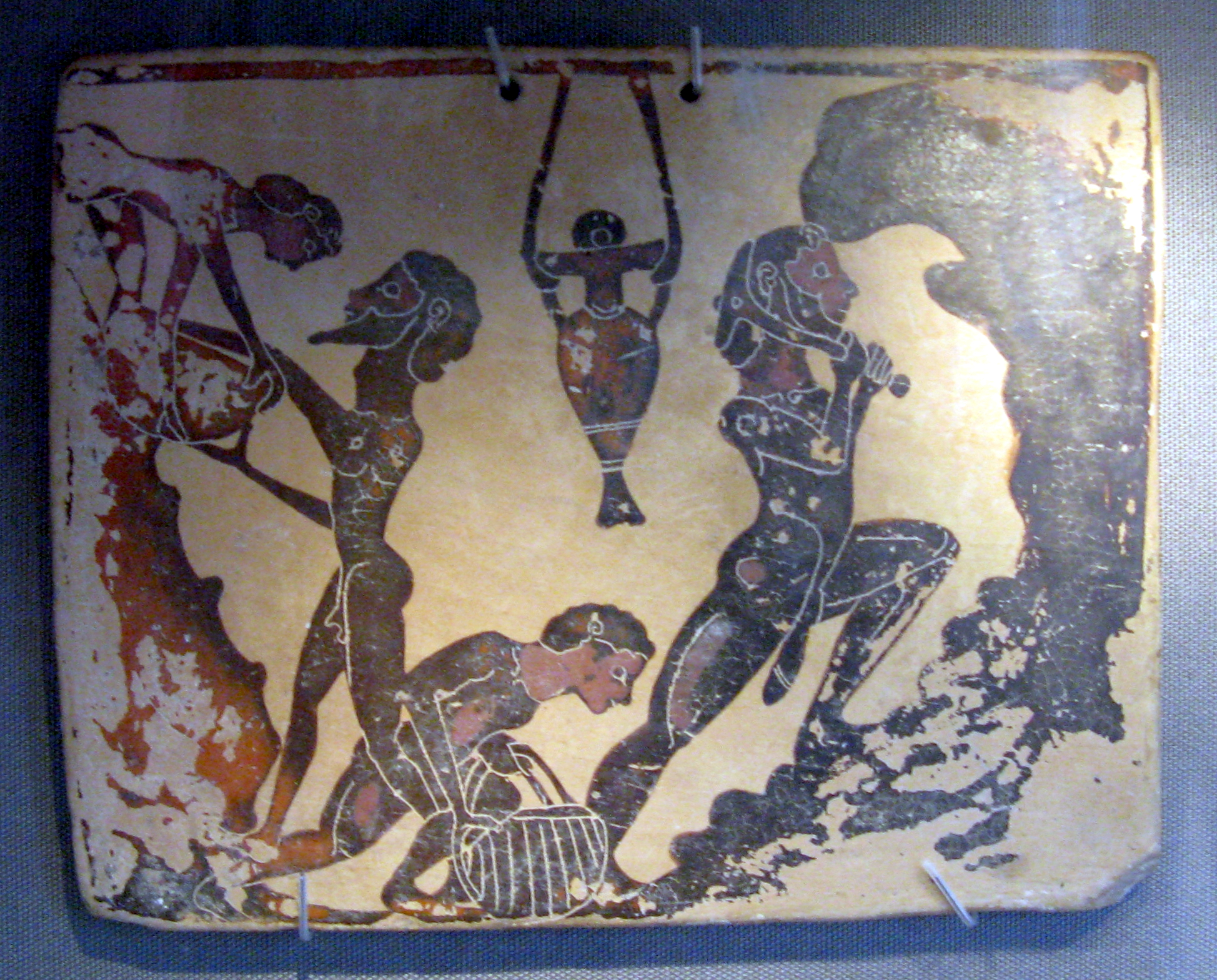 Getting the Clay, Corinthian plaque, 575–550 BC. From Penteskouphia, now Antikensammlung Berlin/Altes Museum